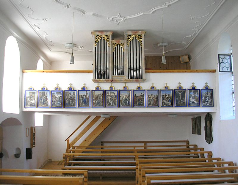 Chapel of ease St. Leonhard (Berghofen, Stadt Sonthofen, Landkreis Oberallgäu, Bavaria, Germany). Interior, looking west